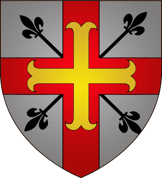 Coat of arms of the municipality of Waldbredimus, Luxembourg